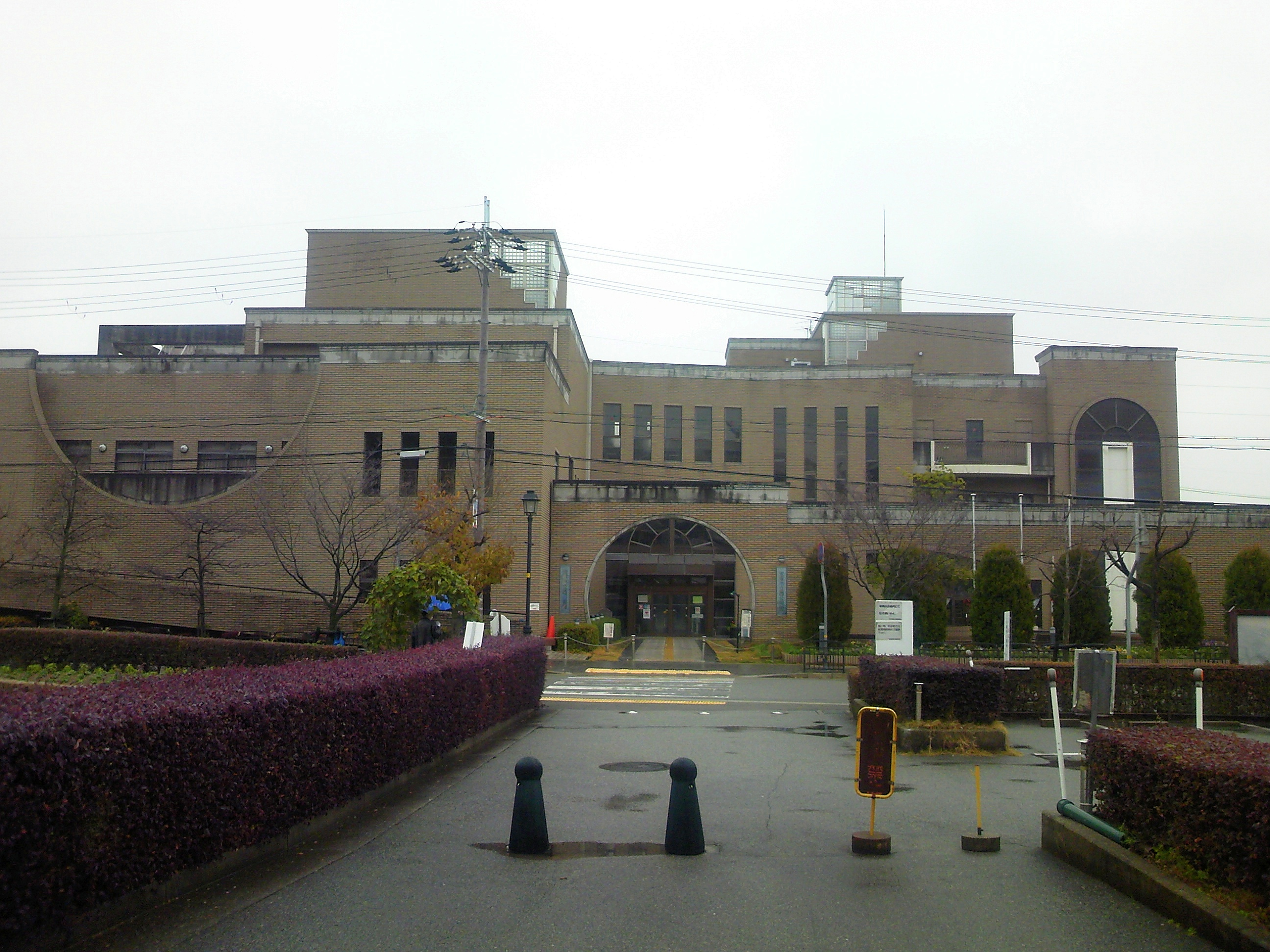 Takarazuka city Nishi(western) library, Obayashi, Takarazuka, Hyogo prefecture, Japan